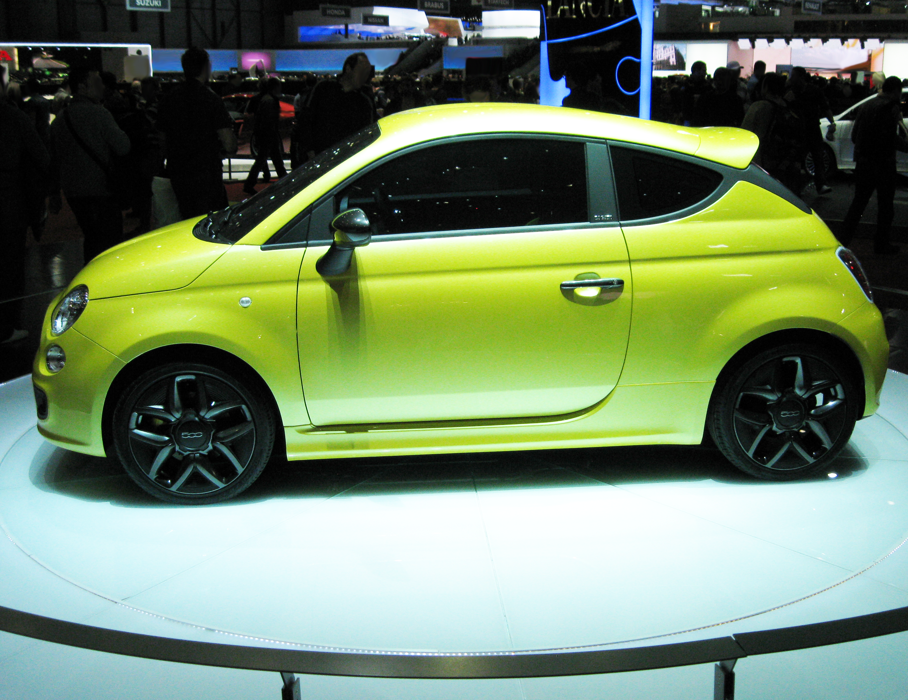 Geneva Motor Show 2011